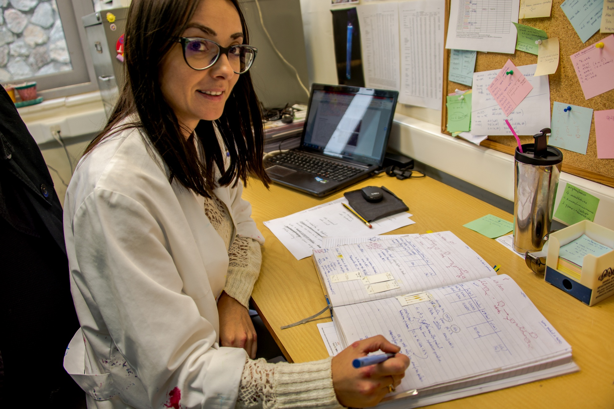 Polyxeni Alexiou - Collaborating Post-doctoral Scientist (Dr) Ι